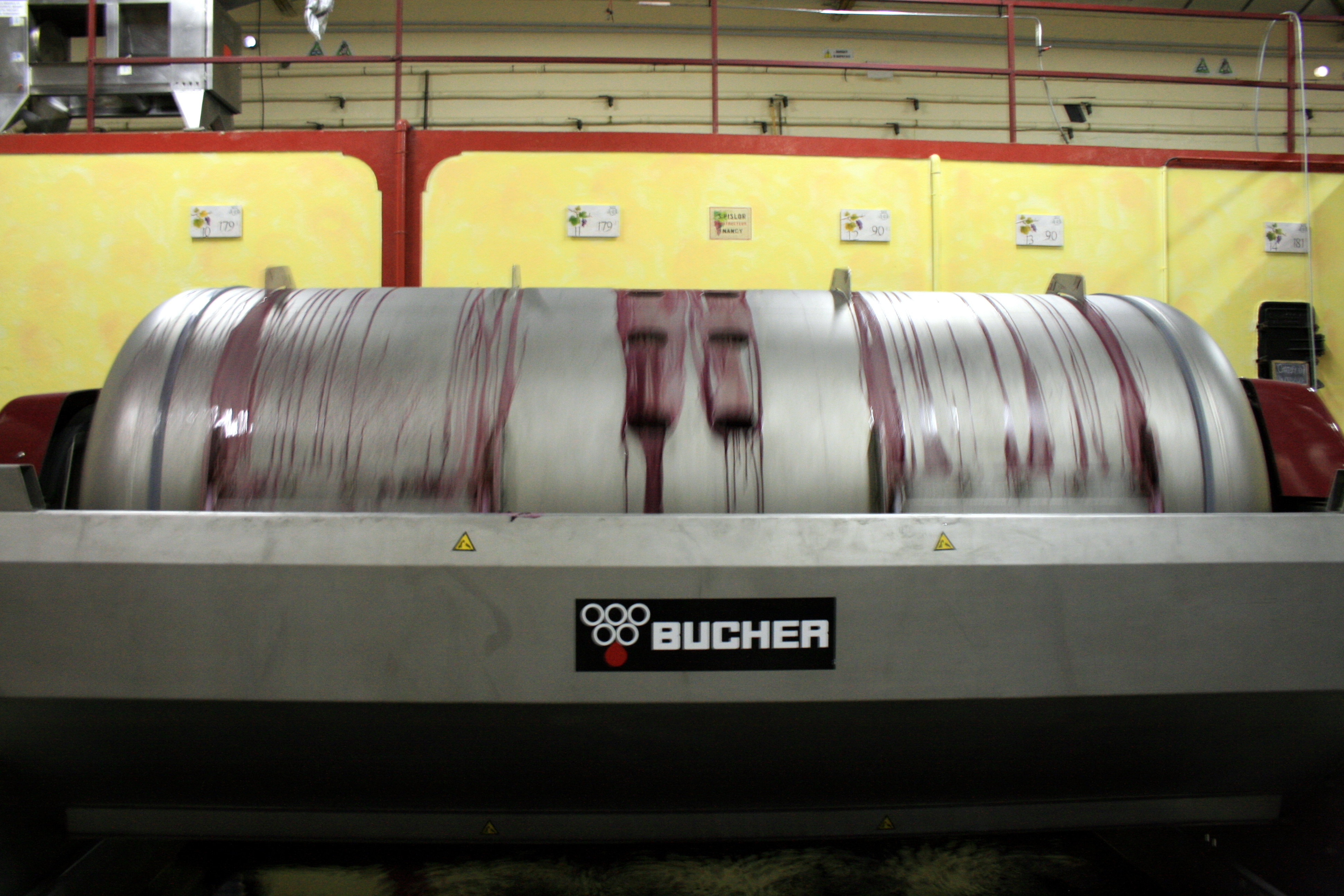 Wine pressurage